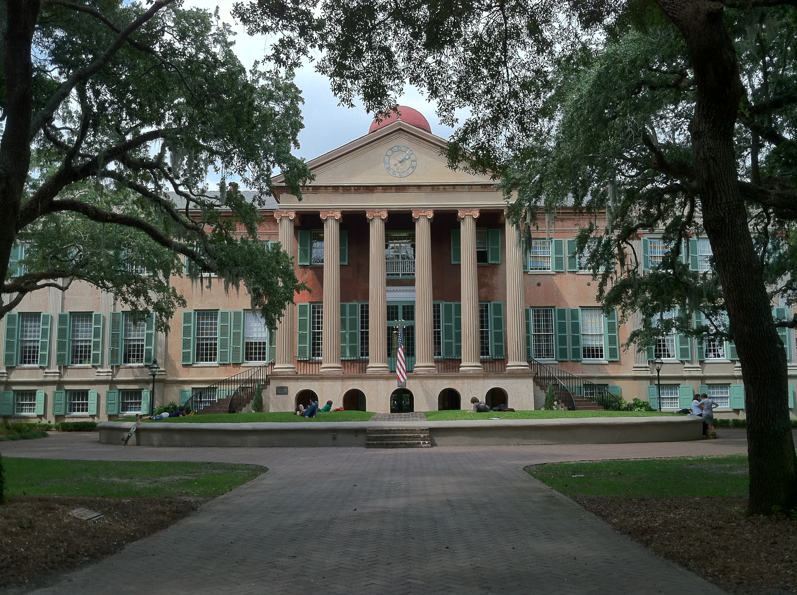 Randolph Hall is the main academic building on the College of Charleston campus and is on the National Register of Historic Places.